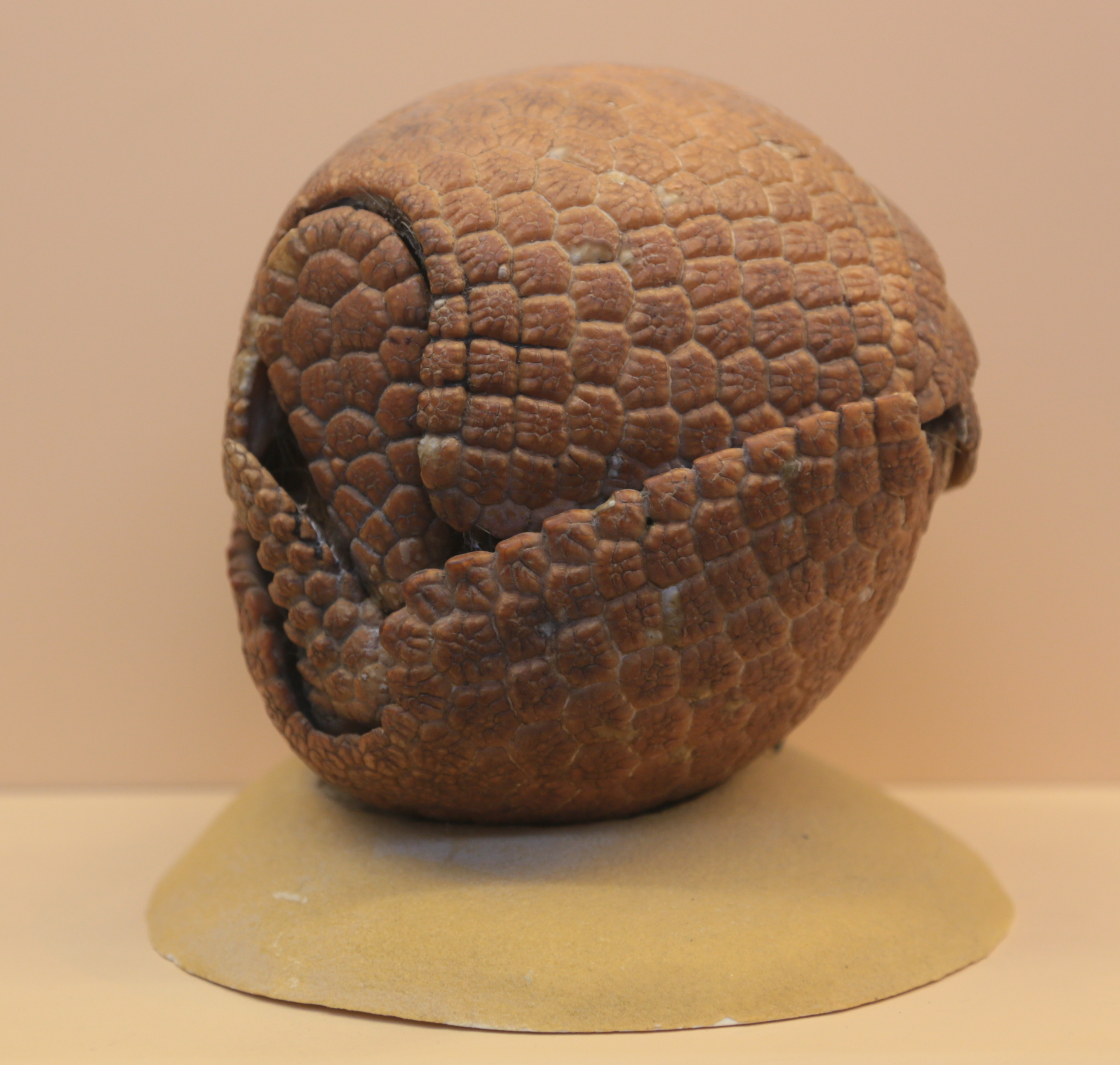 Brazilian three-banded armadillo (Tolypeutes tricinctus) 2, Natural History Museum, London, Mammals Gallery